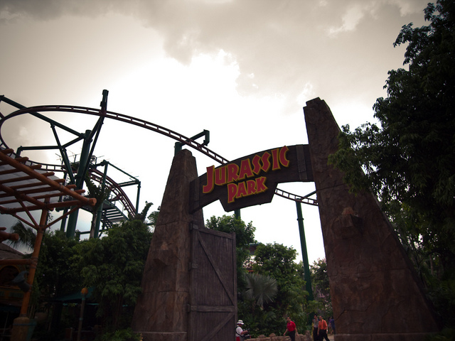 The Canopy Flyer roller coaster at Universal Studios Singapore's Jurassic Park part of the Lost World.